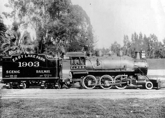 East Lake Park Scenic Railway, steam locomotive No 1903, later used at the Venice Miniature Railway